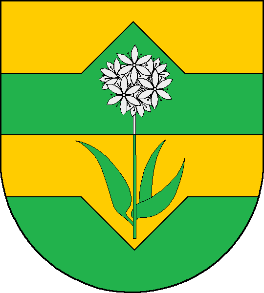 Coat of arms of the municipality Lockstedt in Schleswig-Holstein, Germany.